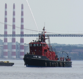 CFAV Firebird (YTR 561) Hosing down the roof. Not really sure why... Bedford Basin, Halifax N.S.